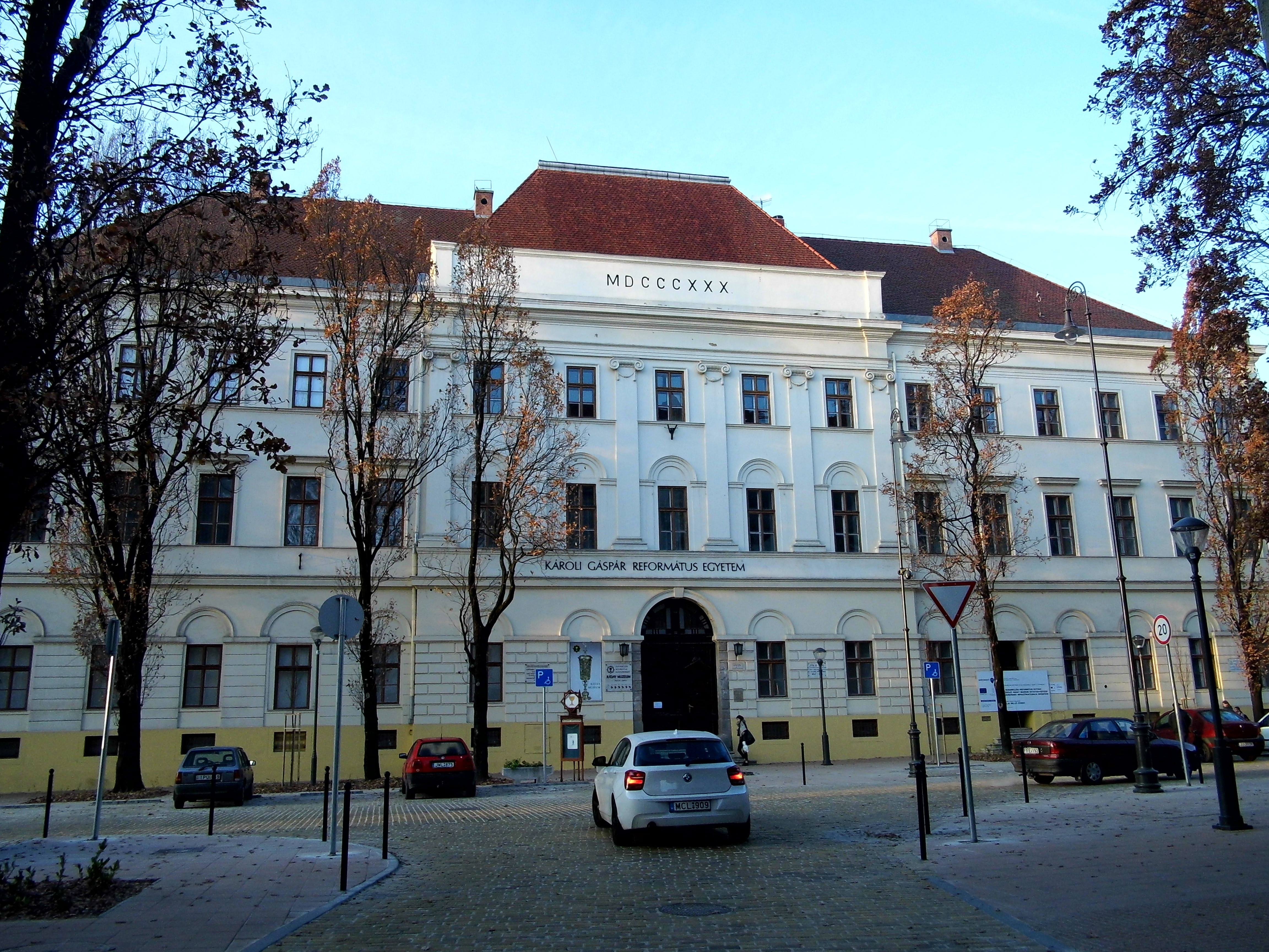 Reformed Old College (Ráday Collection), Kecskemét